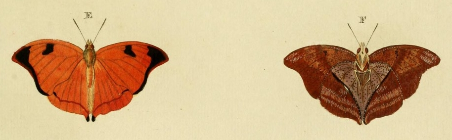 Illustration of Zaretis isidora (male).